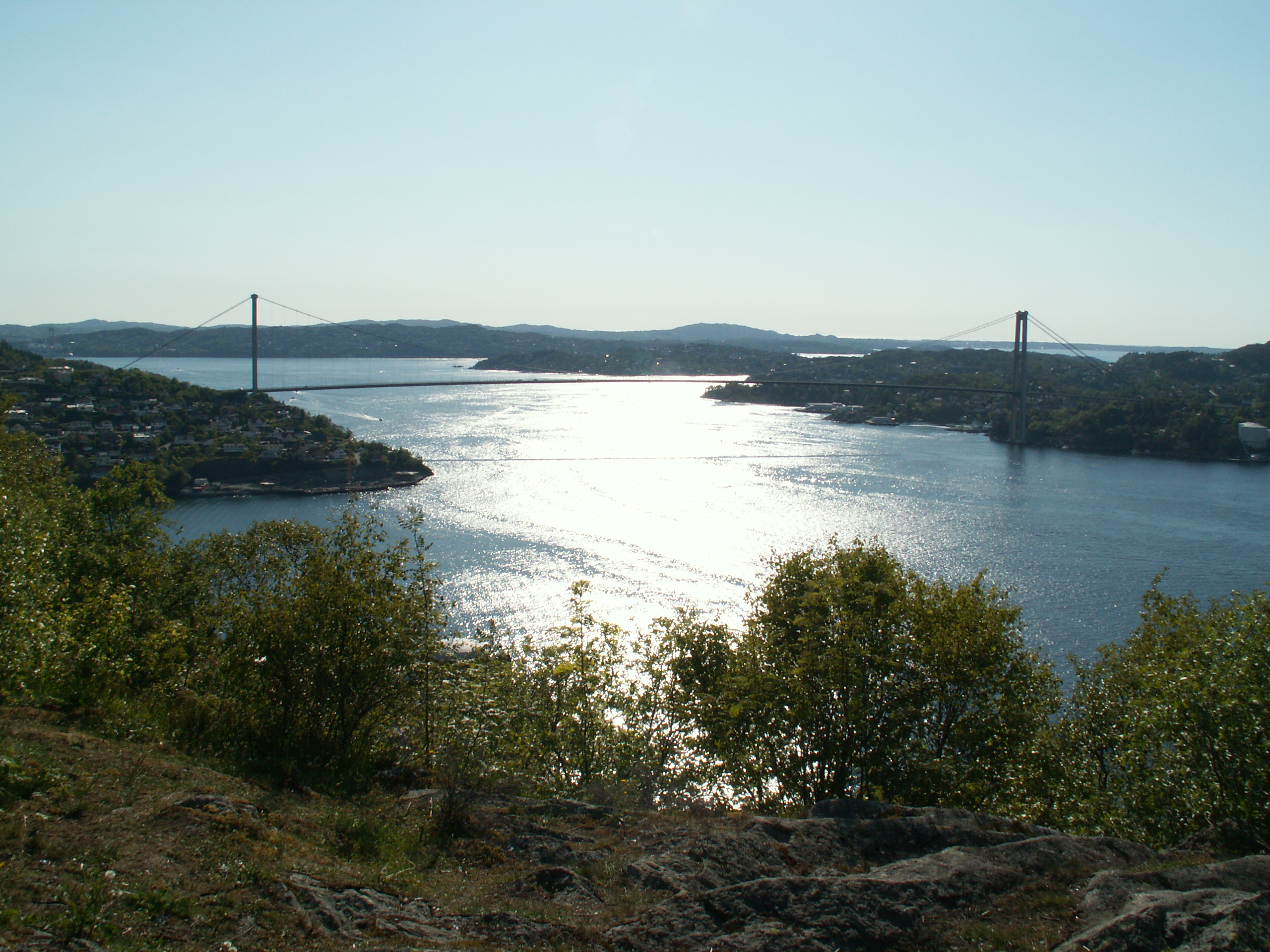 Askøy Bridge seen from the east (Kvarven fort).